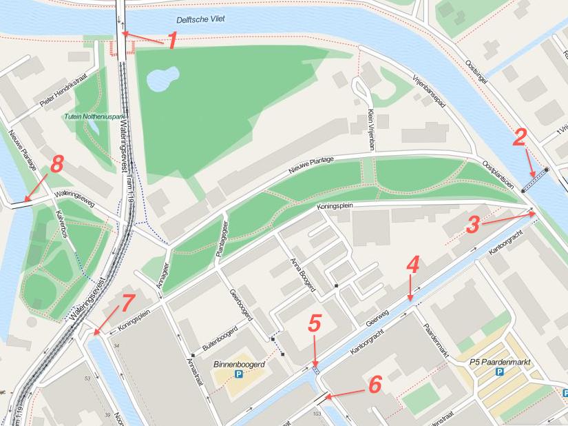 Map has bridges marked in the centre area of Delft. Map is based on Part 1 of 6.